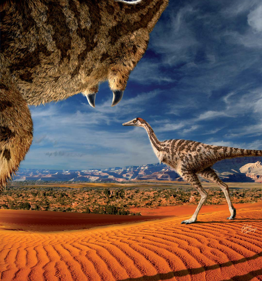 Life reconstruction of two individuals of Linhenykus monodactylus.